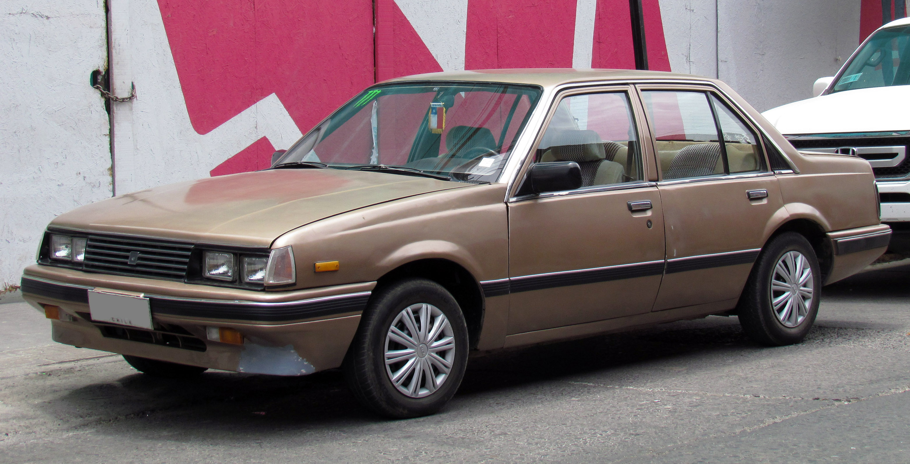 1985 Chevrolet Aska 1.8 Limited in Chile. These were assembled in Arica, Chile, and were also sold in Ecuador.